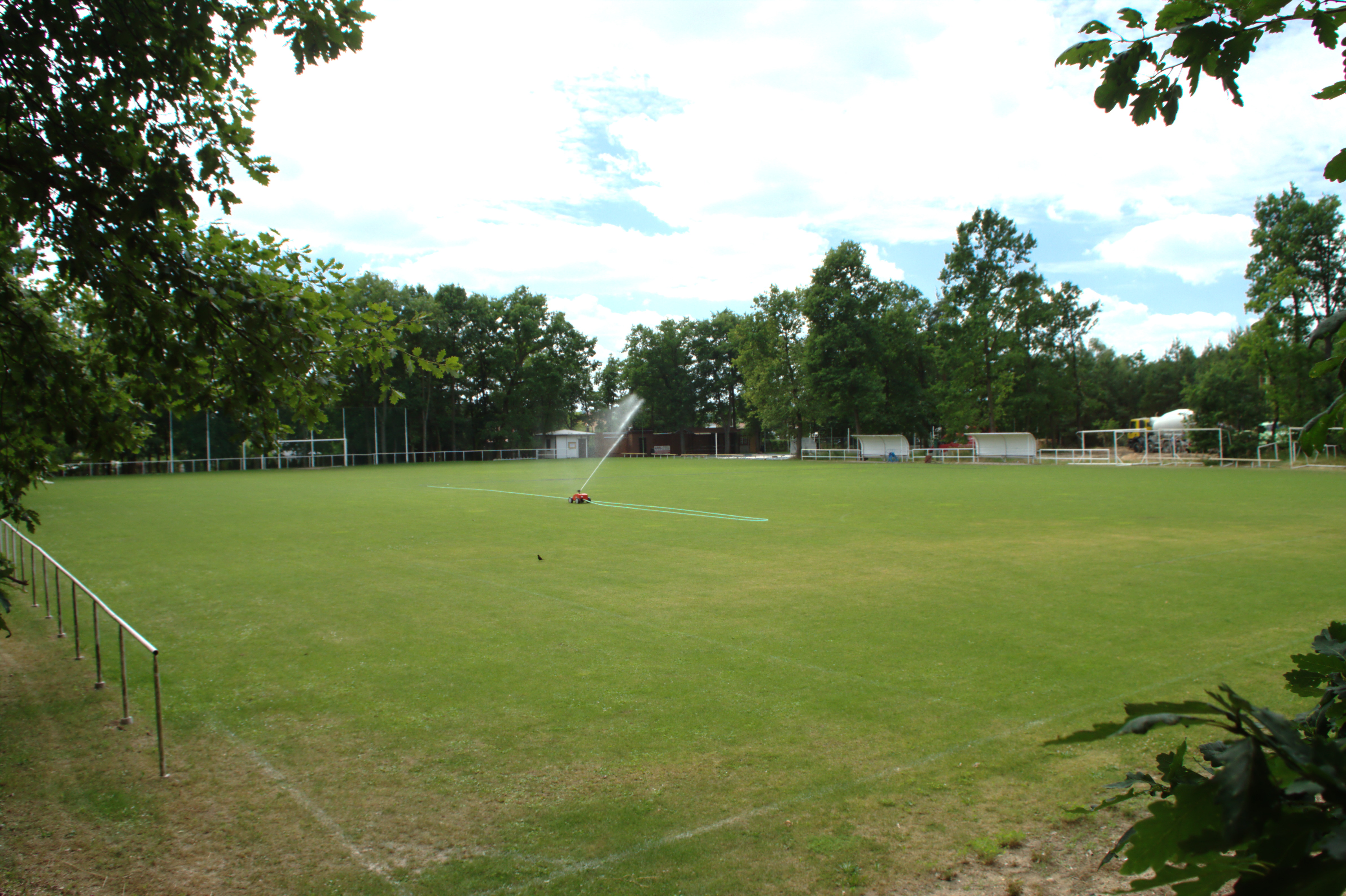 A football field in Vědomice, Ústí Region, CZ